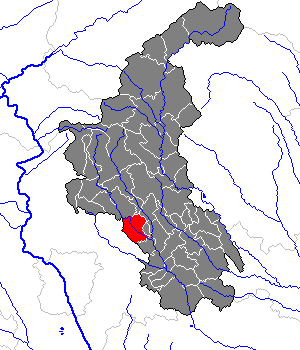 This map shows the area of the Gemeinde (municipality) Mitterdorf an der Raab in the Bezirk (district) Weiz, Styria, Austria.